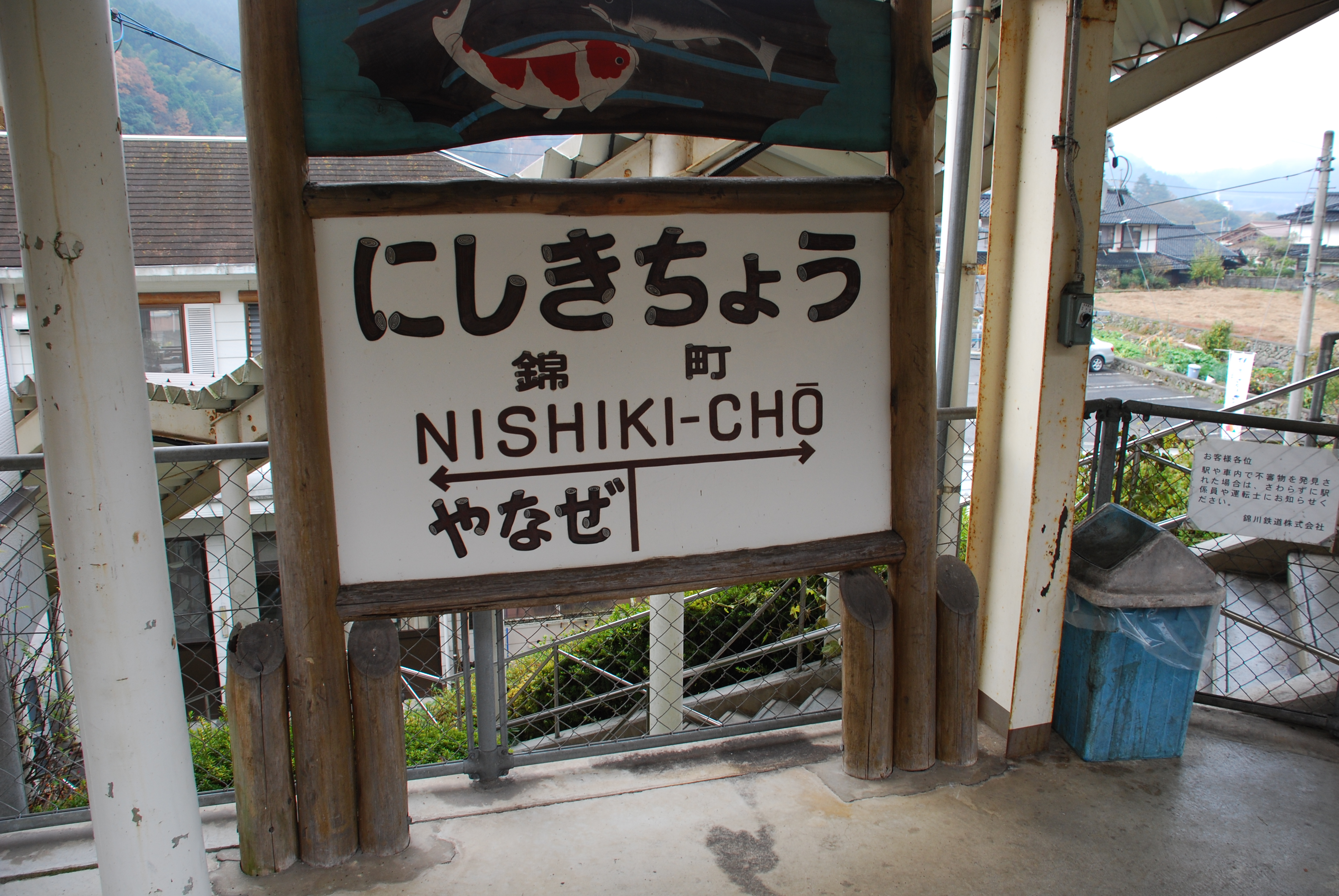 Station sign at Nishikicho Station in Yamaguchi Prefecture.